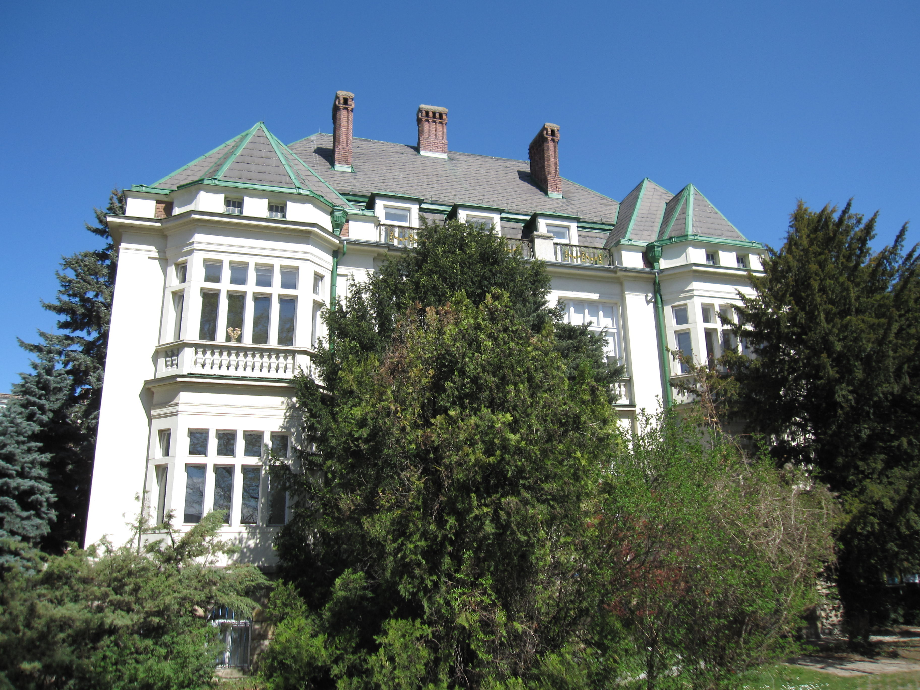 Villa Jta on Linzer Strasse 146 in Penzing in Vienna, former house of the industrialist Johann Heinricht Jta. The villa today is part of Bundesrealgymnasium Wien 14.